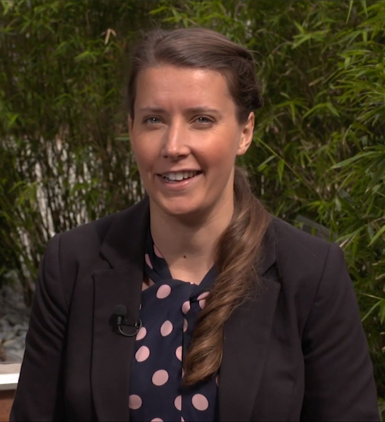 From Torquay, Victoria to building the Mars Rover at NASA's Jet Propulsion Laboratory, Dr Elizabeth Jens is one of the next-gen Australian space leaders working with the U.S. on the next giant leap...